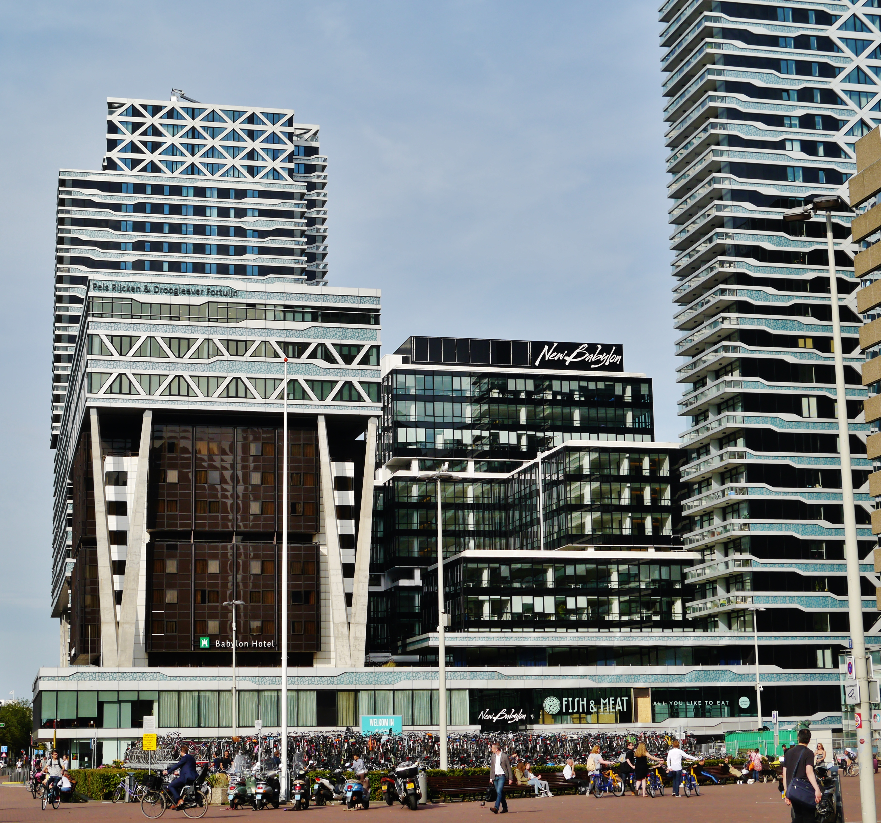 New Babylon, The Hague, Province of South Holland, Netherlands